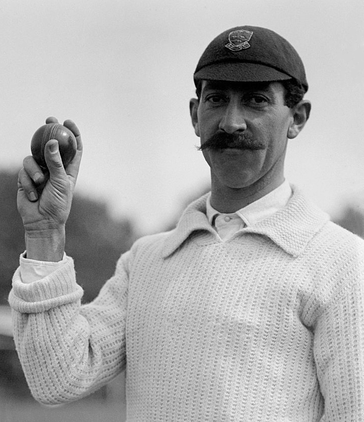 Albert Edward Relf, Sussex, circa 1905.